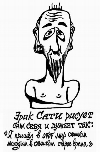 Erik Satie - Buste d'Erik Satie - autoportret 1913